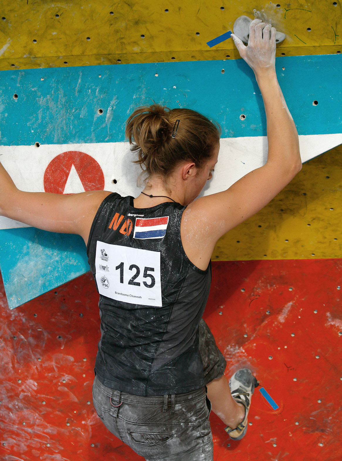 Channah Brandsema during qualifications at the IFSC Boulder Worldcup Vienna 2010.